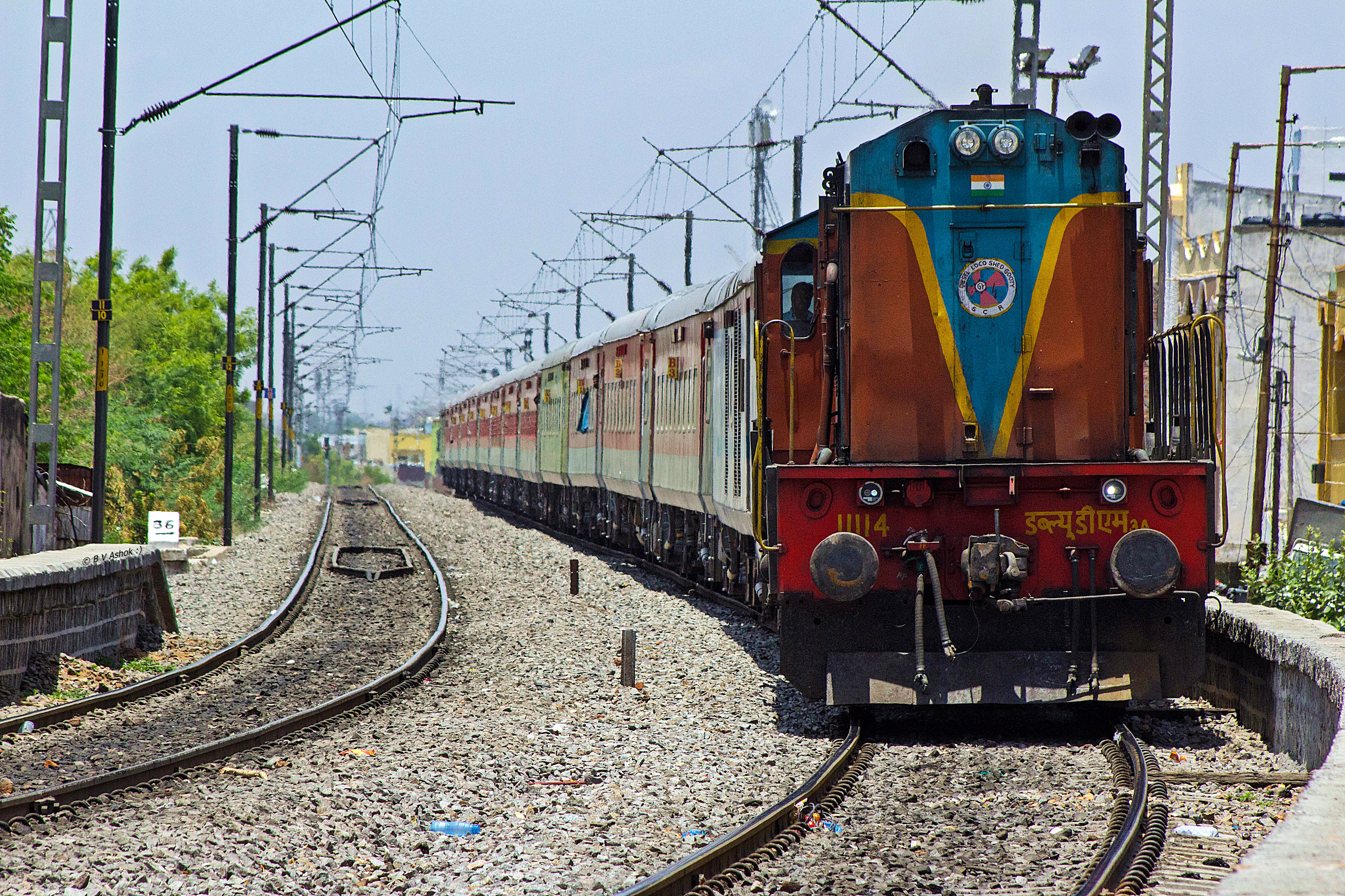 GY WDM-3A 11114 curving to enter Yakutpura with 07604 Krishnarajapuram -Kacheguda Special fare Special...